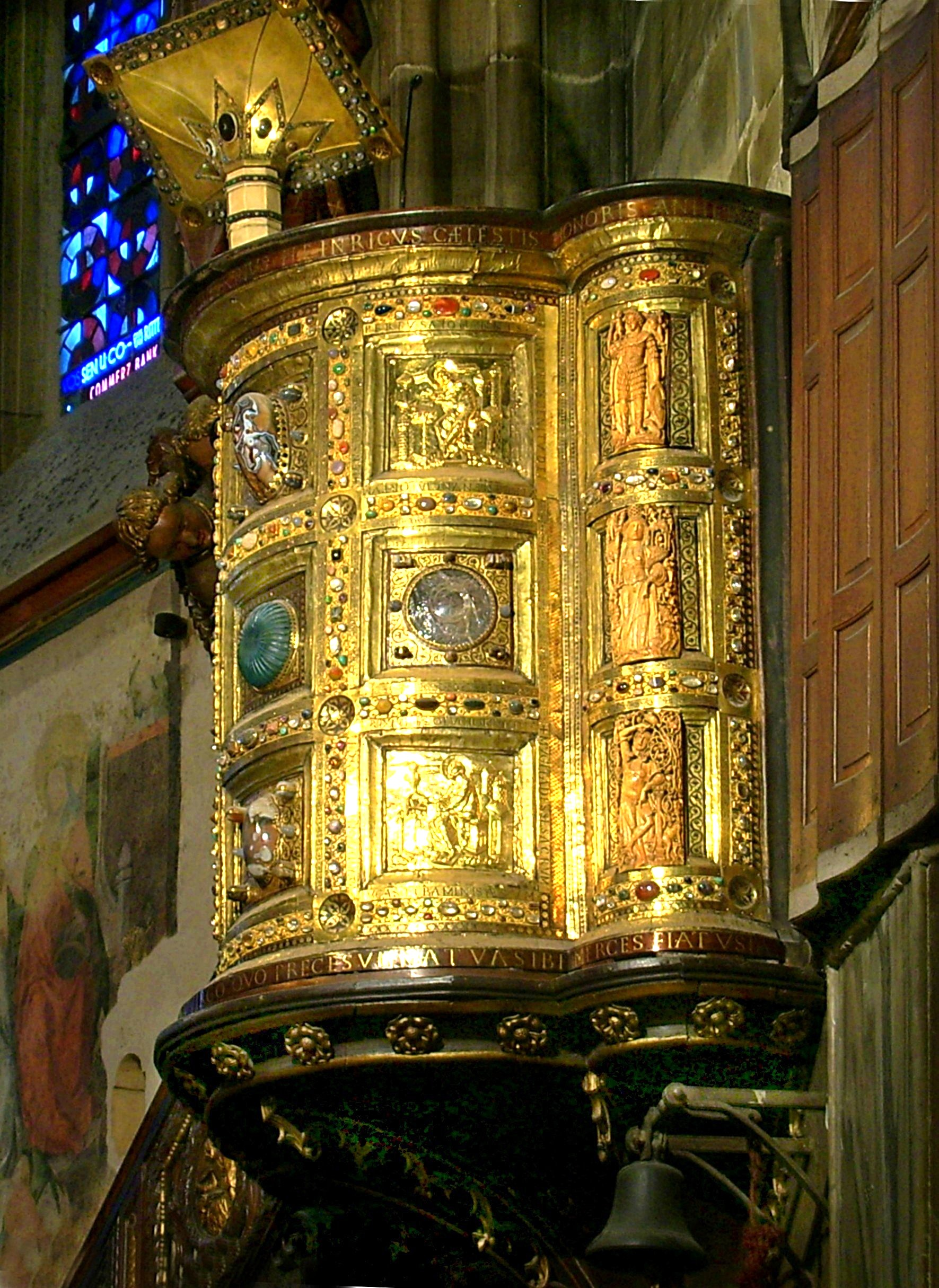 Pulpit from Henry II (1014) at Aachen cathedral.